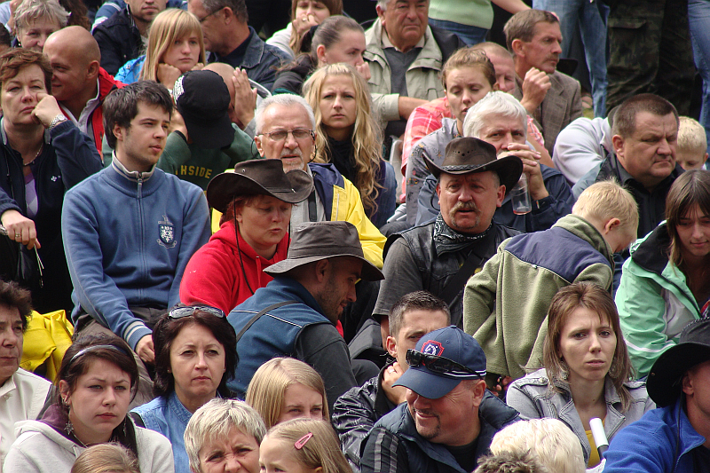 Regional Pony Rally in Rudawka Rymanowska